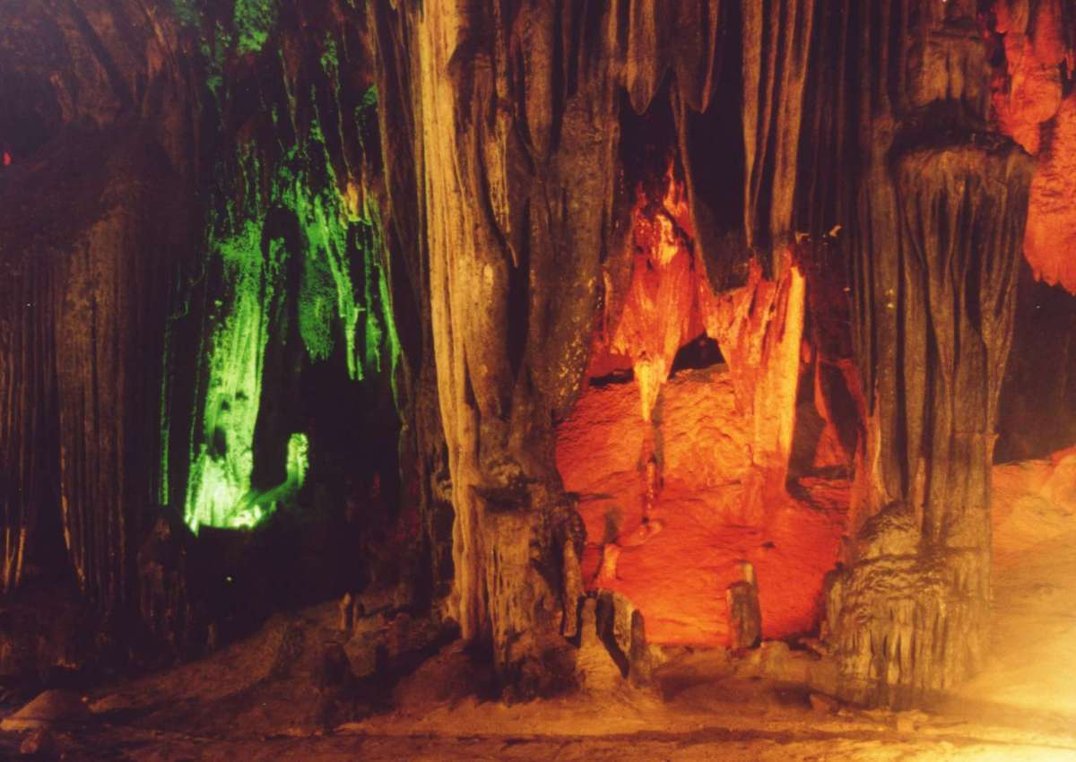 Khao Binn cave, Ratchaburi province, Thailand Photo taken on July 13 2003 by User:Ahoerstemeier